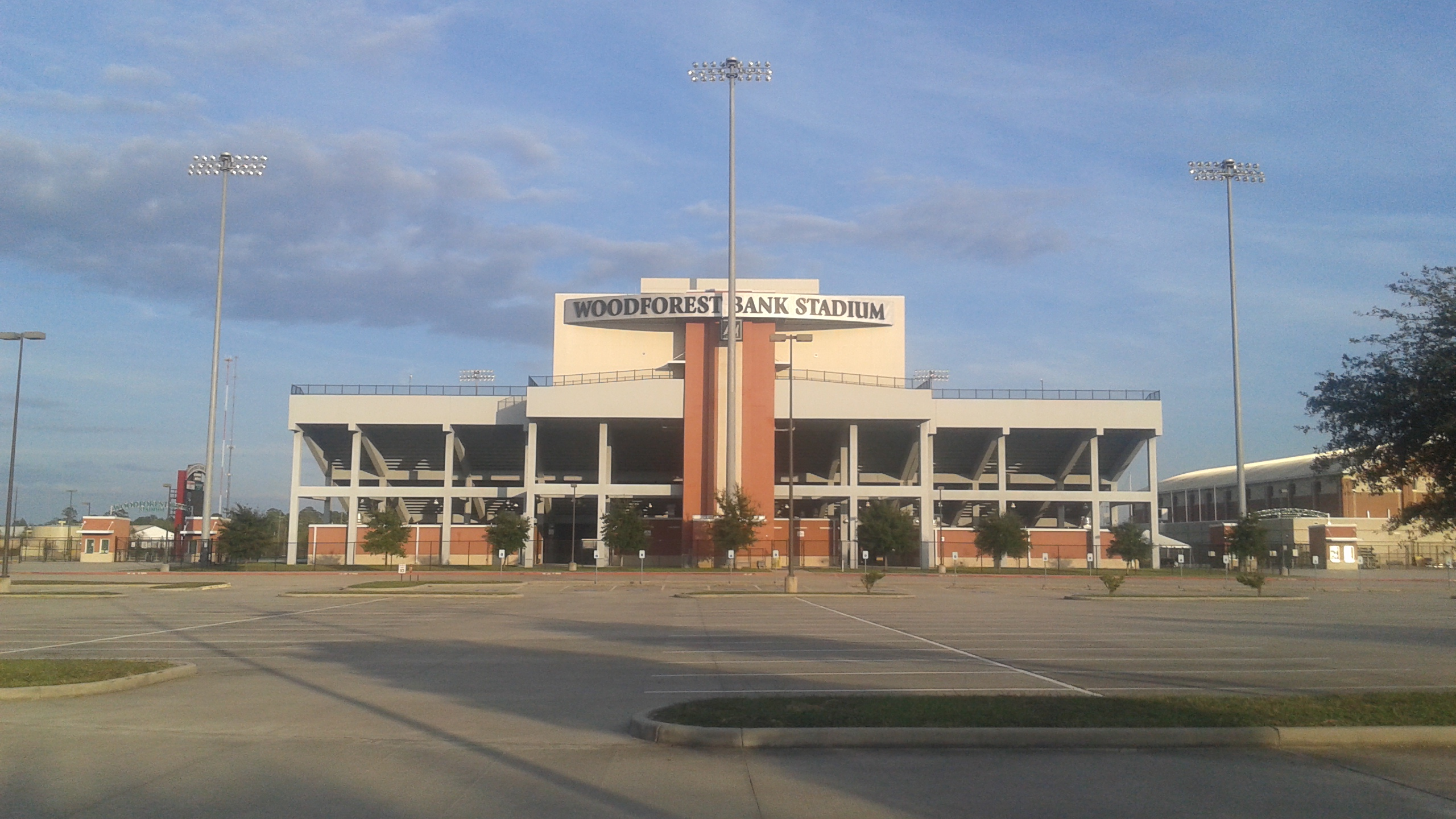 Woodforest Stadium, a football stadium owned by Conroe Independent School District. Located in Shenandoah, Texas.